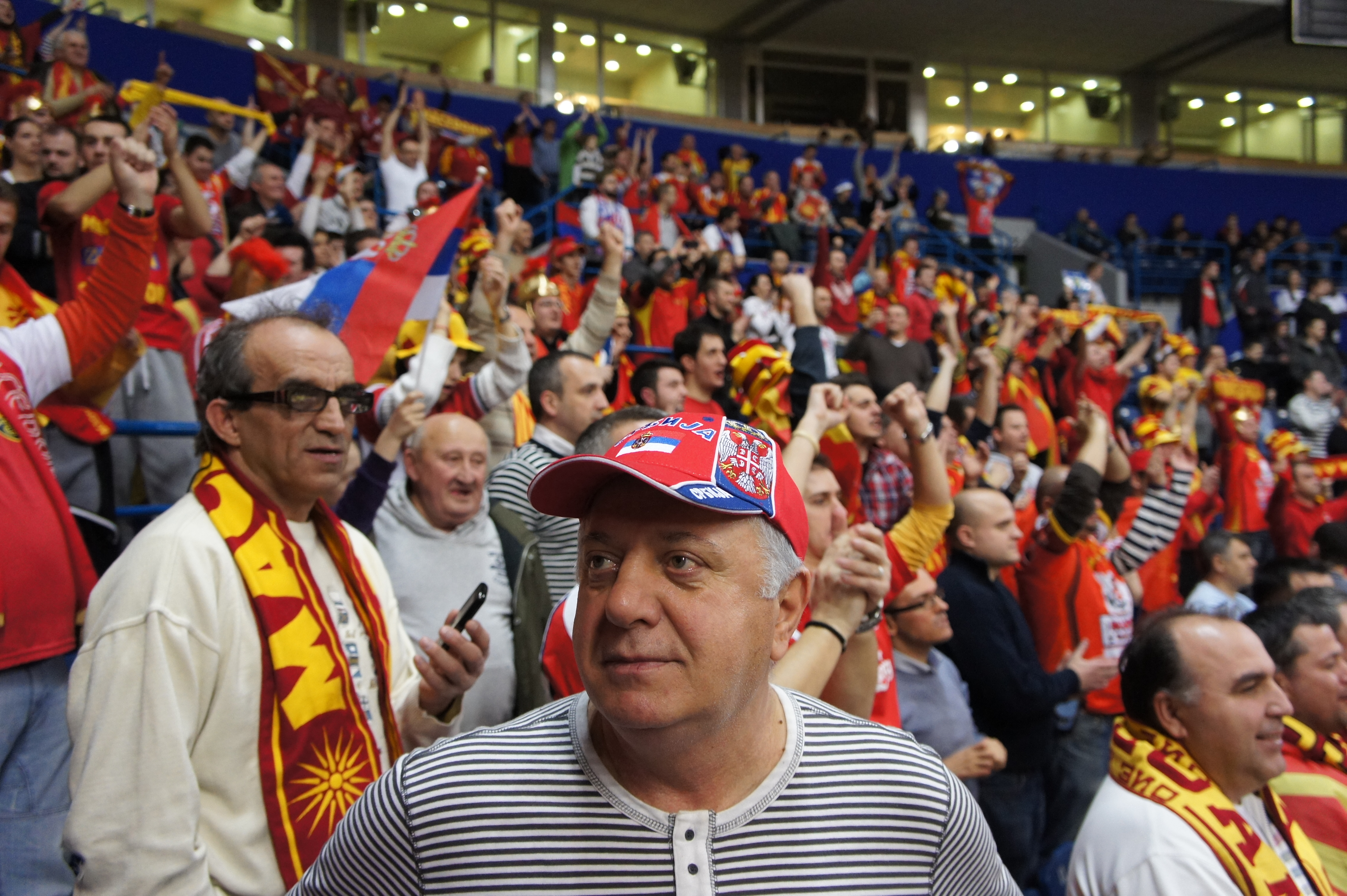 Serbian and Macedonian fans in Belgrade Arena. 2012 European Men's Handball Championship